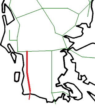 Map of railways in Southern Jutland in Denmark with the state railway between Bramming, Tønder and Niebüll (in Germany) in red.